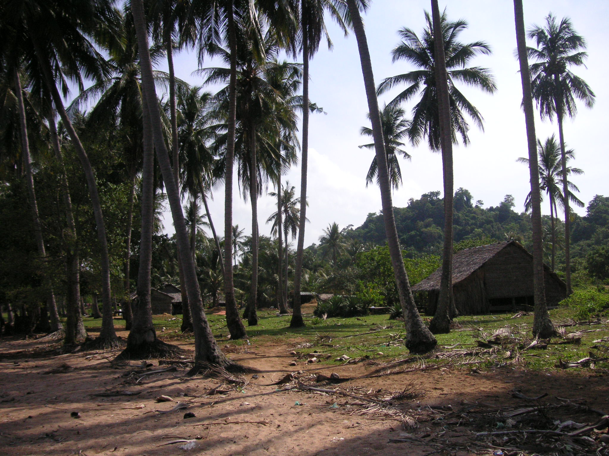 Koh Tonsay (Rabbit Island), area closed to the beach.